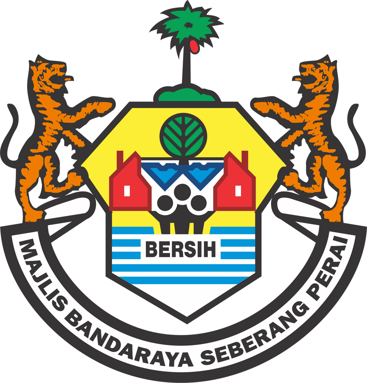 The latest logo after upgrading to city council status in 16 September 2019